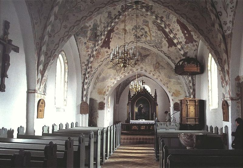 Tågerup Kirke (church)